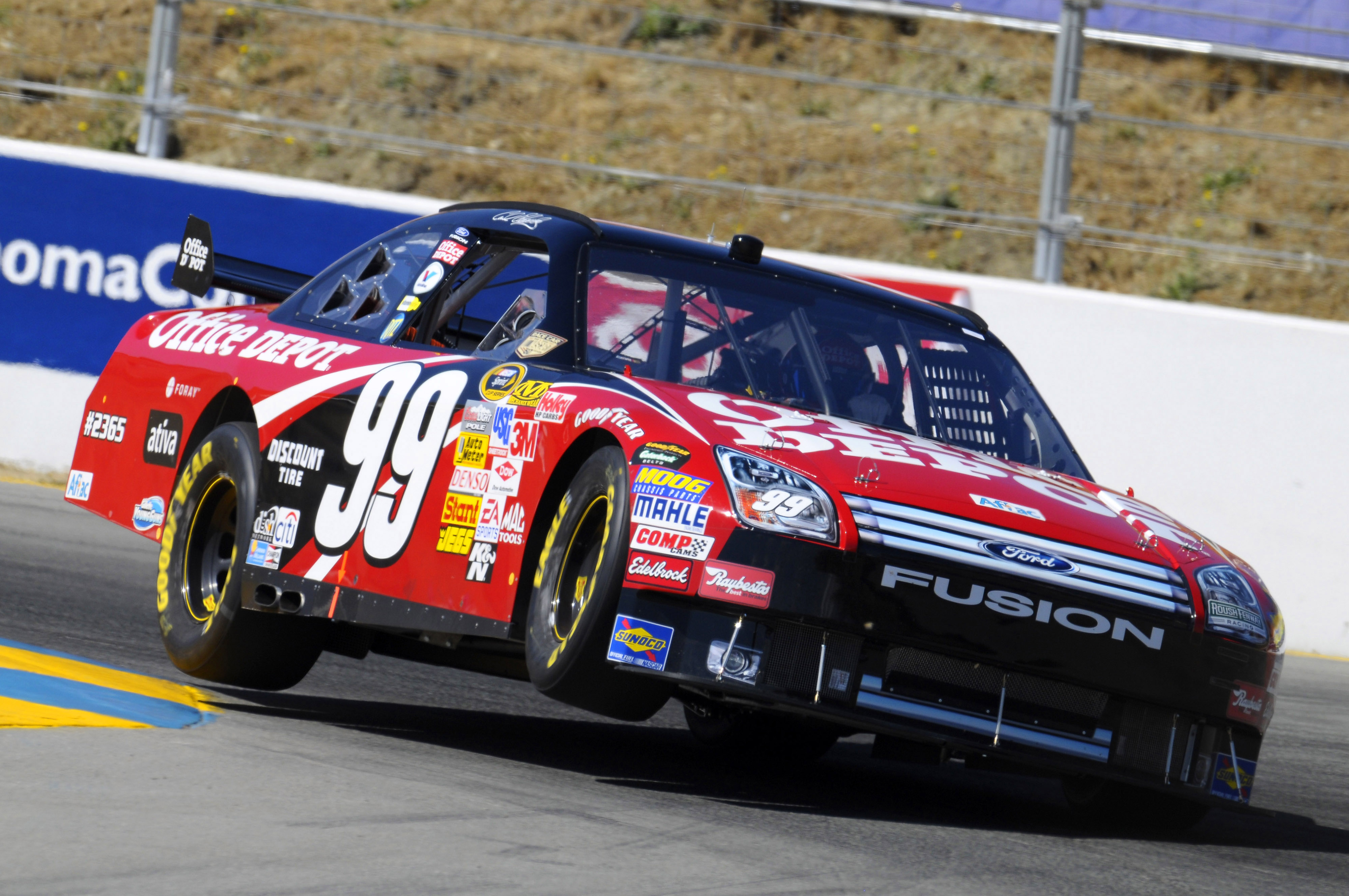 06/21/08 Sonoma, California USA. Carl Edwards saves the wear on his right side tires during Happy Hour.